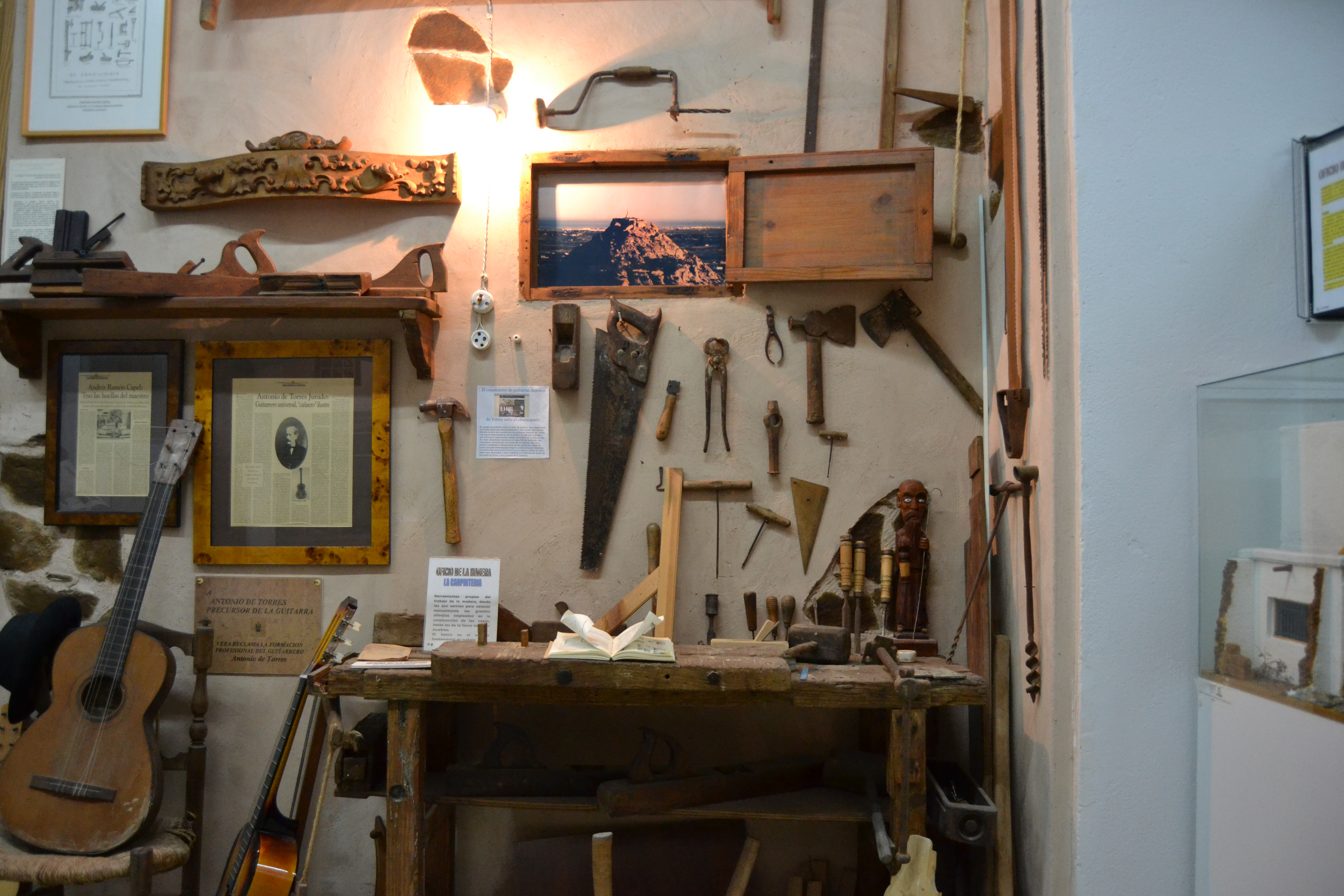 Taller del carpintero.